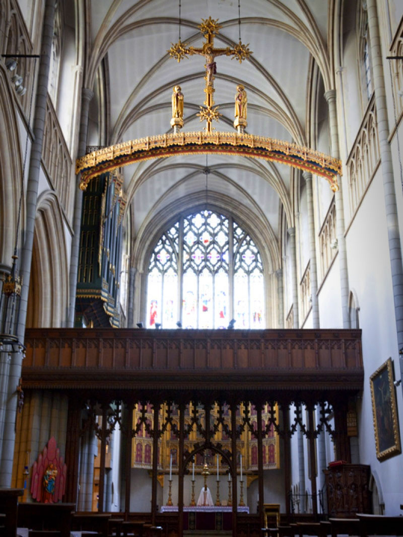 Inside the parish church of the Annunciation, Bryanston Street, Marble Arch, London W1, England, looking east to the chancel